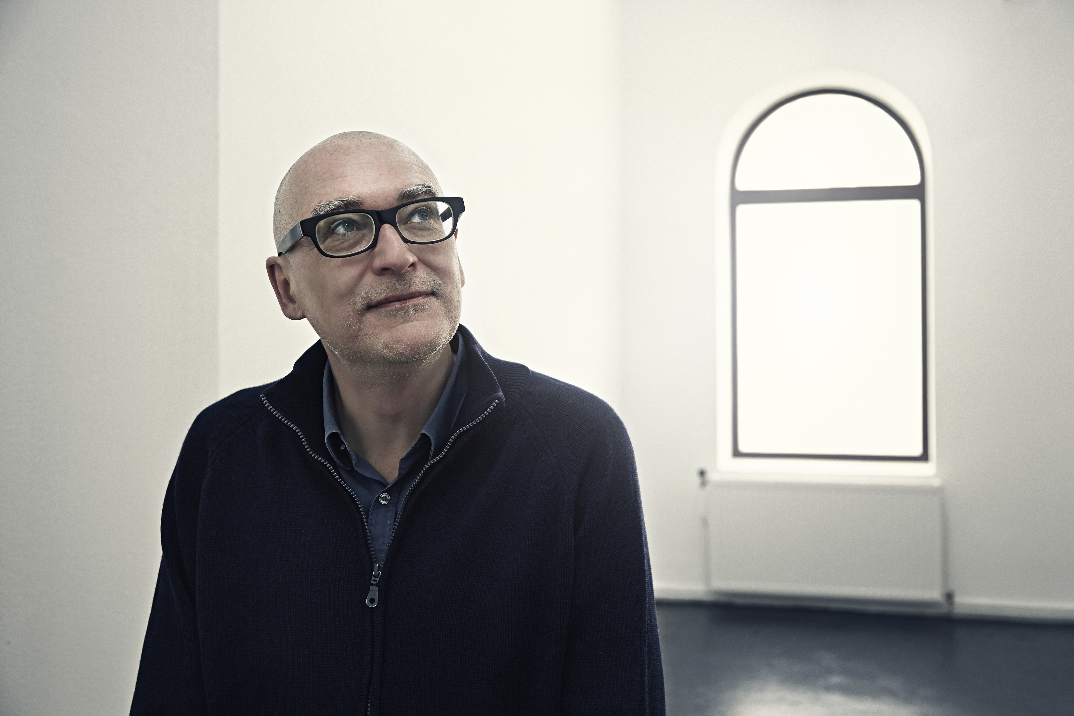 Portrait of Günther Selichar by Thomas Smetana, Linz